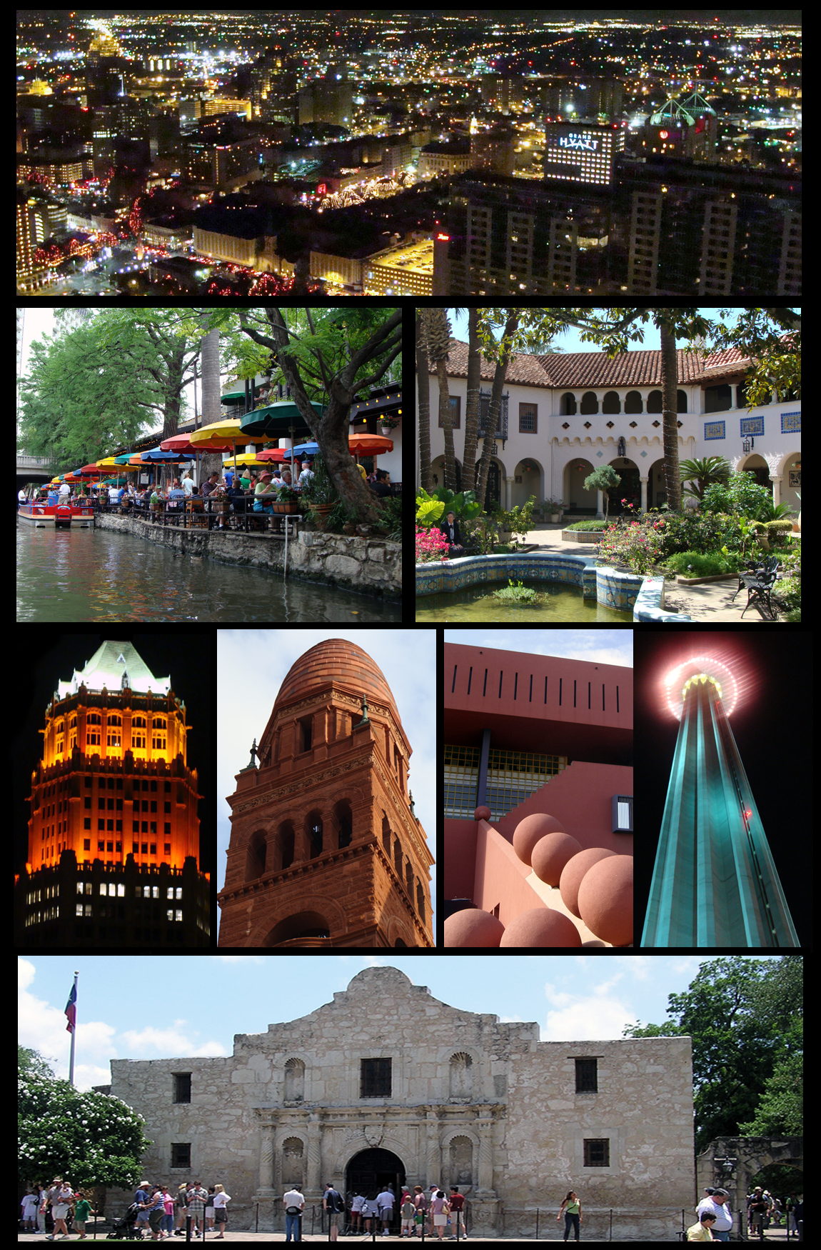 From top to bottom and Left to Right: 1. San Antonio downtown from the Tower of The Americas at night. 2. The Riverwalk 3. The McNay Museum of Art 4. The Tower Life Building 5. Bexar County courthouse 6. San Antonio Public Library 7. The Tower of the Americas at night 8. The Alamo